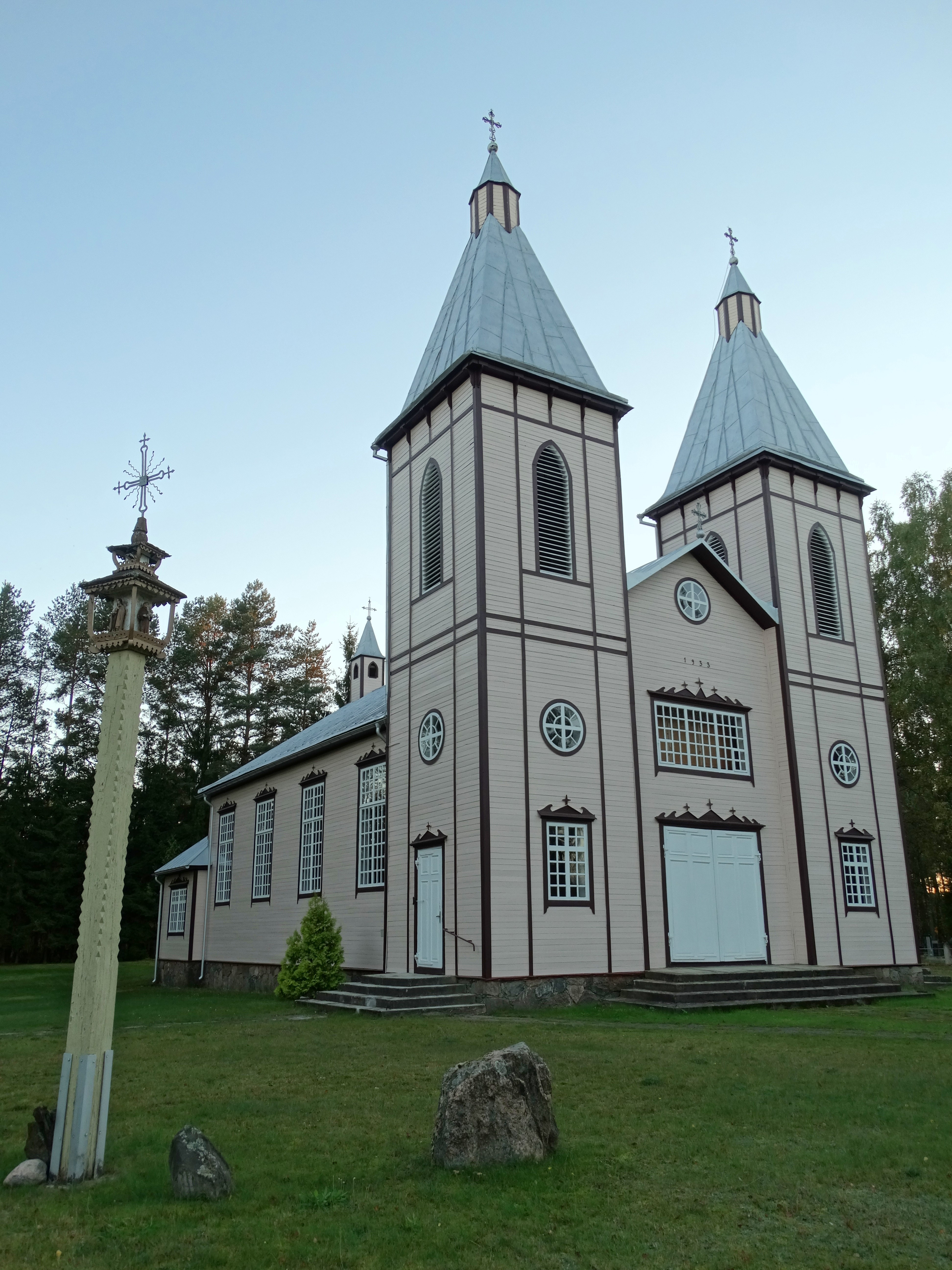 Catholic church, Švedriškė, Ignalina district, Lithuania